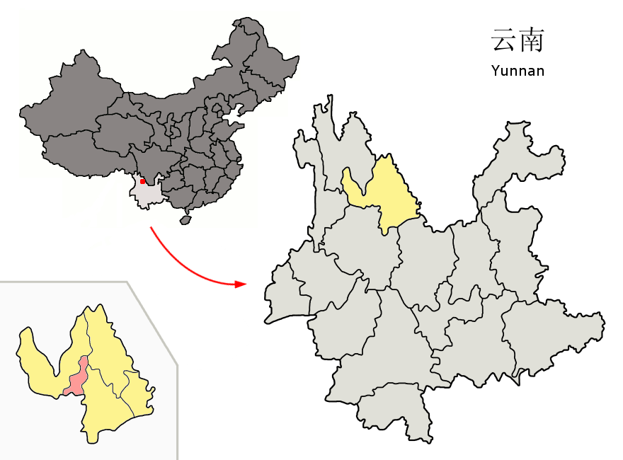 Location of Gucheng District (pink) and Lijiang prefecture (yellow) within Yunnan province of China Map drawn in september 2007 using various sources, mainly : Yunnan province administrative regions GIS data: 1:1M, County level, 1990 Yunnan Counties map from